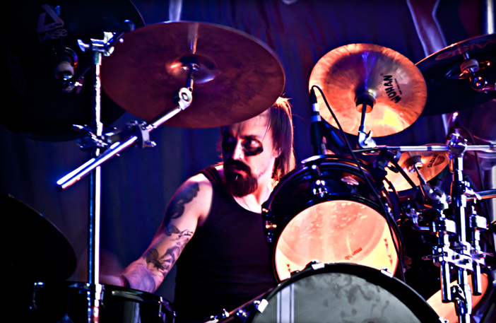 Hernán Berini